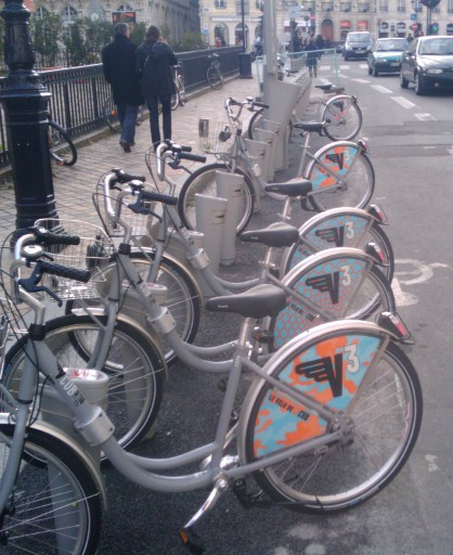 VCub or V3 velostation on Bordeaux - Retal cycle.